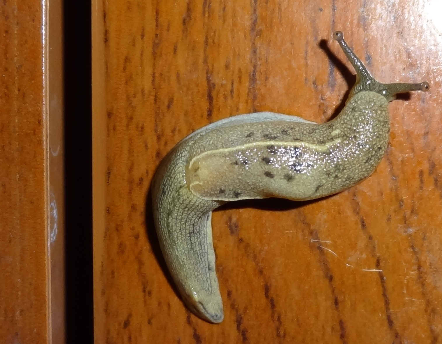 Photo of snail without shell